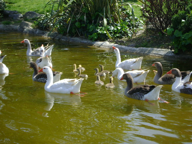 Geese and goslings